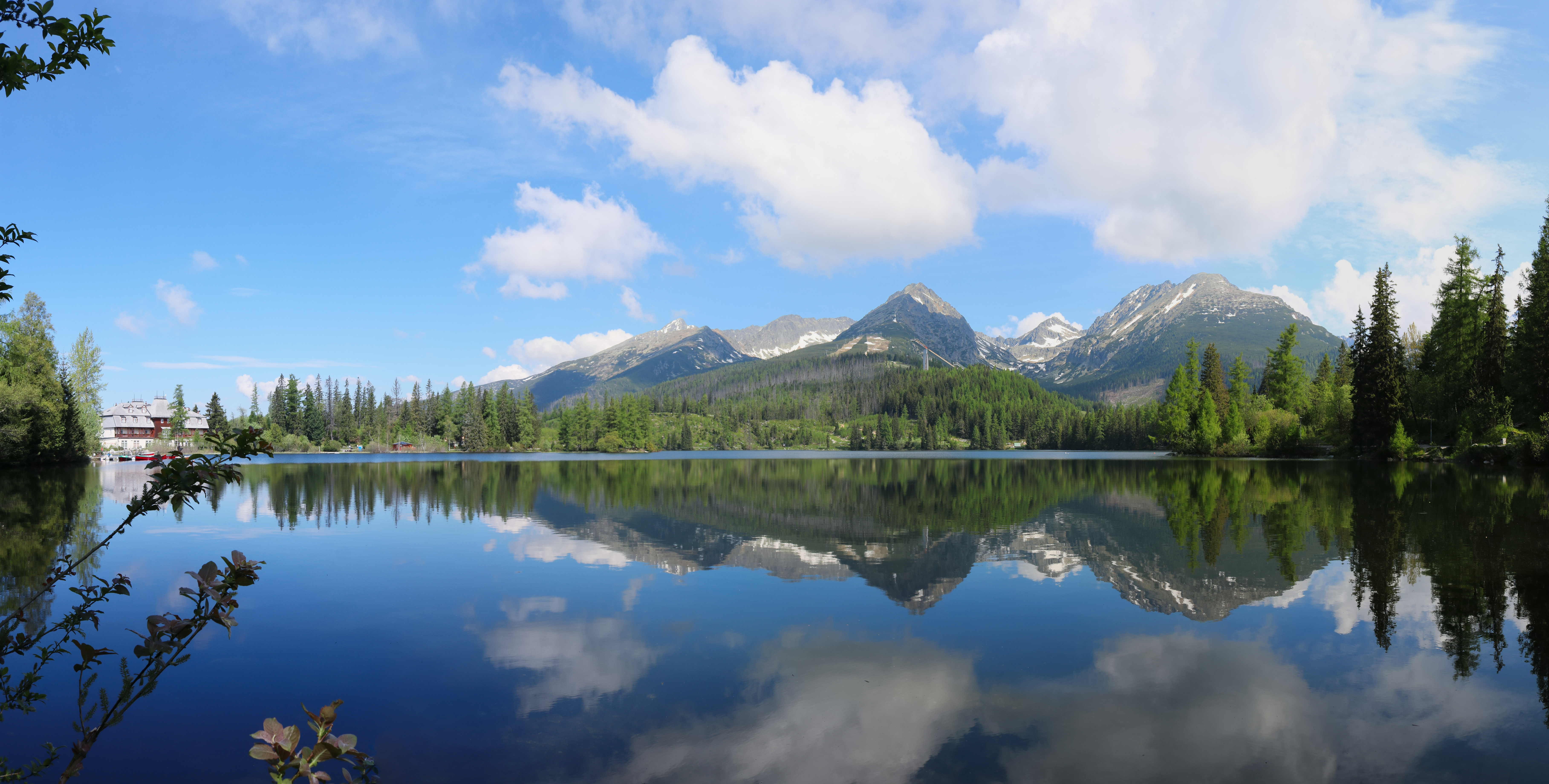 Strbske Pleso - Lake and Tatra Mountains